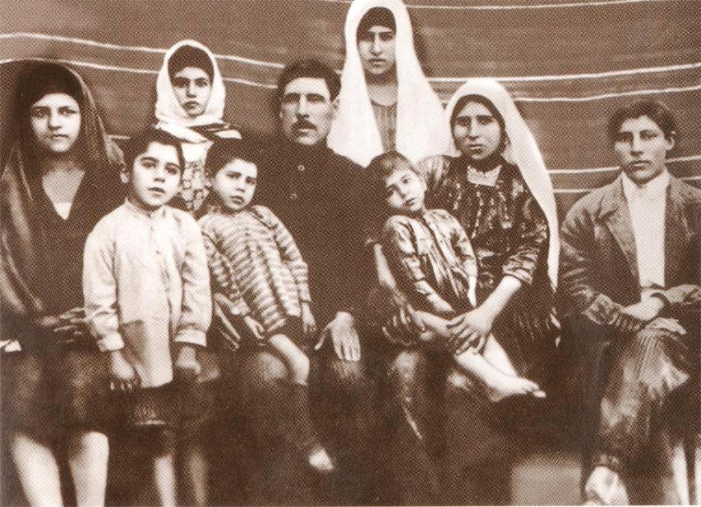 Family of Heydar Aliyev (second from the left)